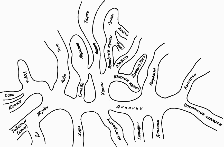 Turks anciant